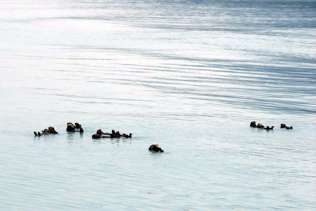 Group of sea otters